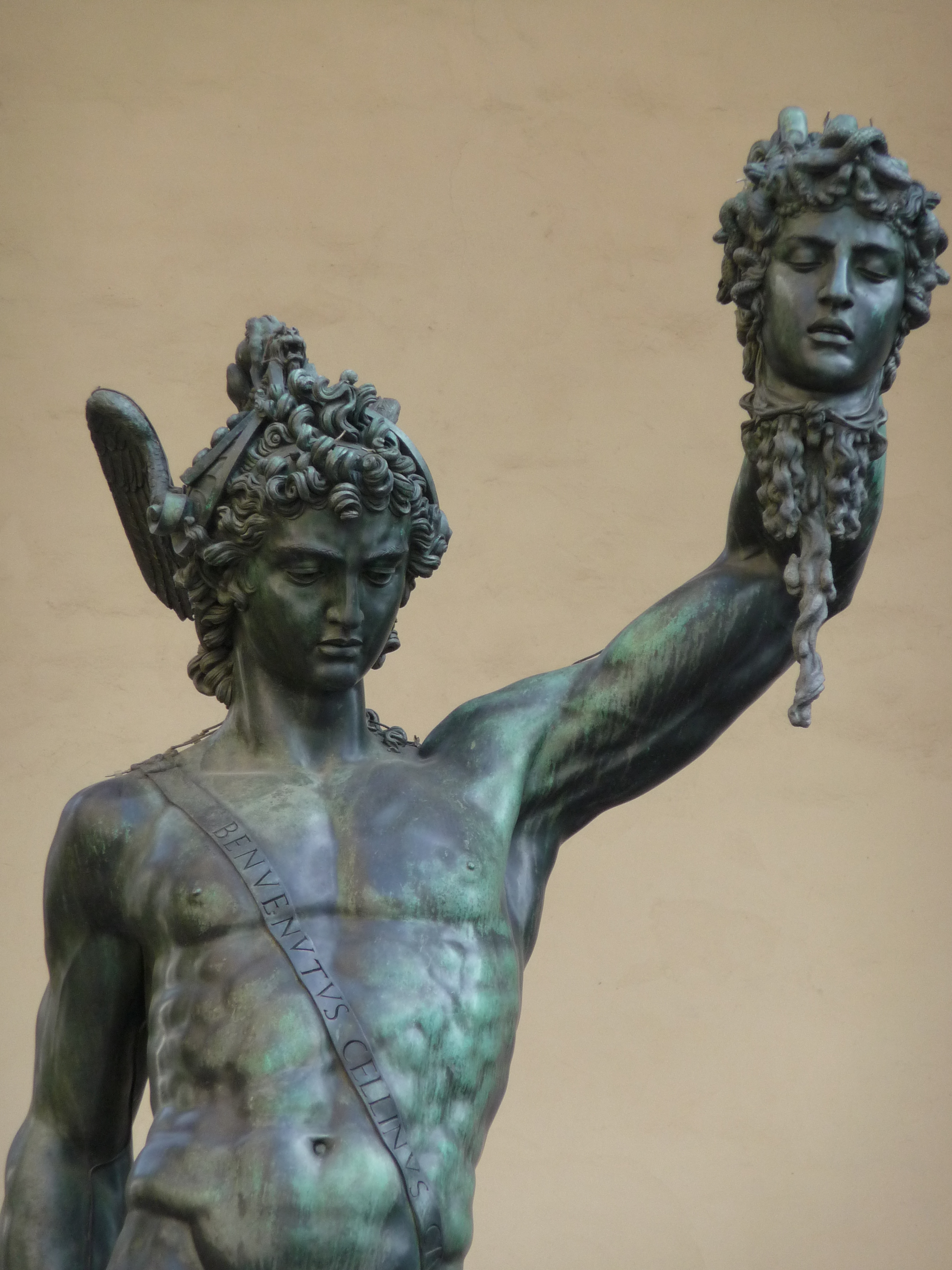 Cellini's Perseus